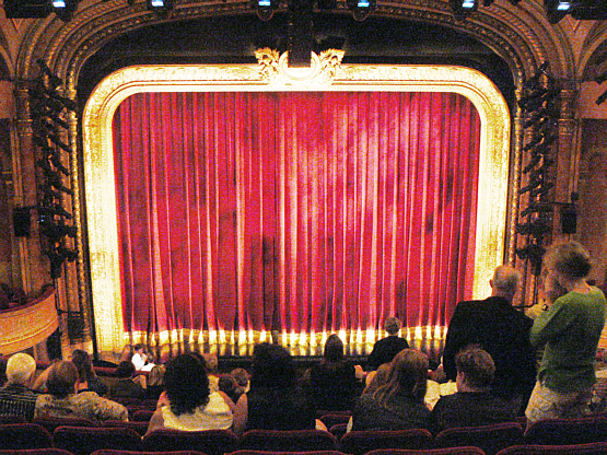 Al Hirschfeld Theatre, view to the stage 302 West 45th Street, Manhattan, New York City